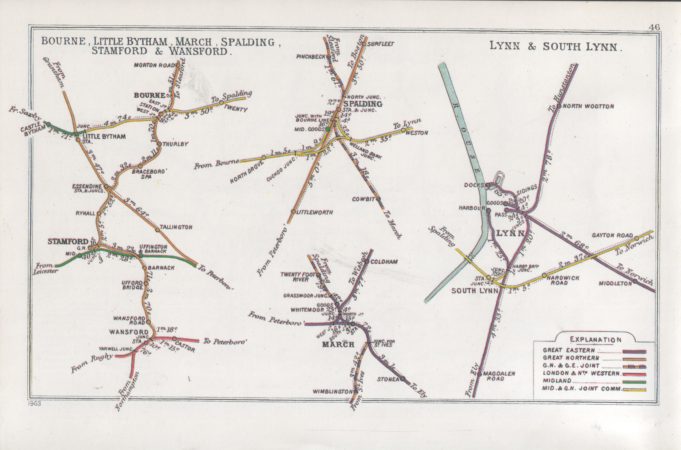 Pre Grouping railway junction around Bourne, Little Bytham, March, Spalding, Stamford & Wansford; Lynn & South Lynn